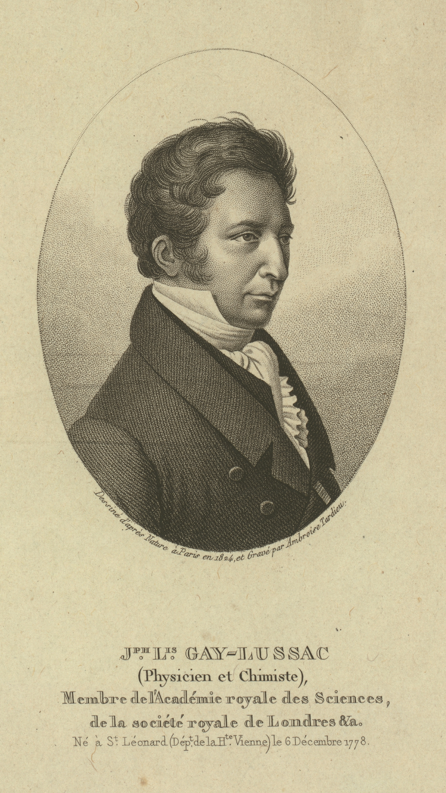 Joseph Louis Gay-Lussac, 1824, by Ambroise Tardieu. This is a cropped, contrast-enhanced version of the image from the Library of Congress online collection. It is in the public domain; see catalog information below. TITLE: Jph. Lis. Gay-Lussac (physicien et chimiste), membre de l'Académie royale des sciences, de la Société royale de Londres, &a. Né à St. Leonard ... 1778 / Dessiné d'après nature à Paris en 1824 et gravé par Ambroise Tardieu. CALL NUMBER: LOT 13400, no. 54 [P&P] Check for an online group record (may link to related items) REPRODUCTION NUMBER: LC-DIG-ppmsca-02238 (digital file from original print) No known restrictions on publication. SUMMARY: Head-and-shoulders oval portrait of French scientist and balloonist Gay-Lussac who tested several hypotheses on the earth's atmosphere. MEDIUM: 1 print : stipple engraving. CREATED/PUBLISHED: [S.l. : s.n., 1824] CREATOR: Tardieu, Ambroise, 1788-1841, artist, engraver. NOTES: Title from item. Tissandier collection. SUBJECTS: Gay-Lussac, Joseph Louis, 1778-1850. FORMAT: Portrait prints 1820-1830. Stipple engravings 1820-1830. REPOSITORY: Library of Congress Prints and Photographs Division Washington, D.C. 20540 USA DIGITAL ID: (digital file from original print) ppmsca 02238 CARD #: 2002724830